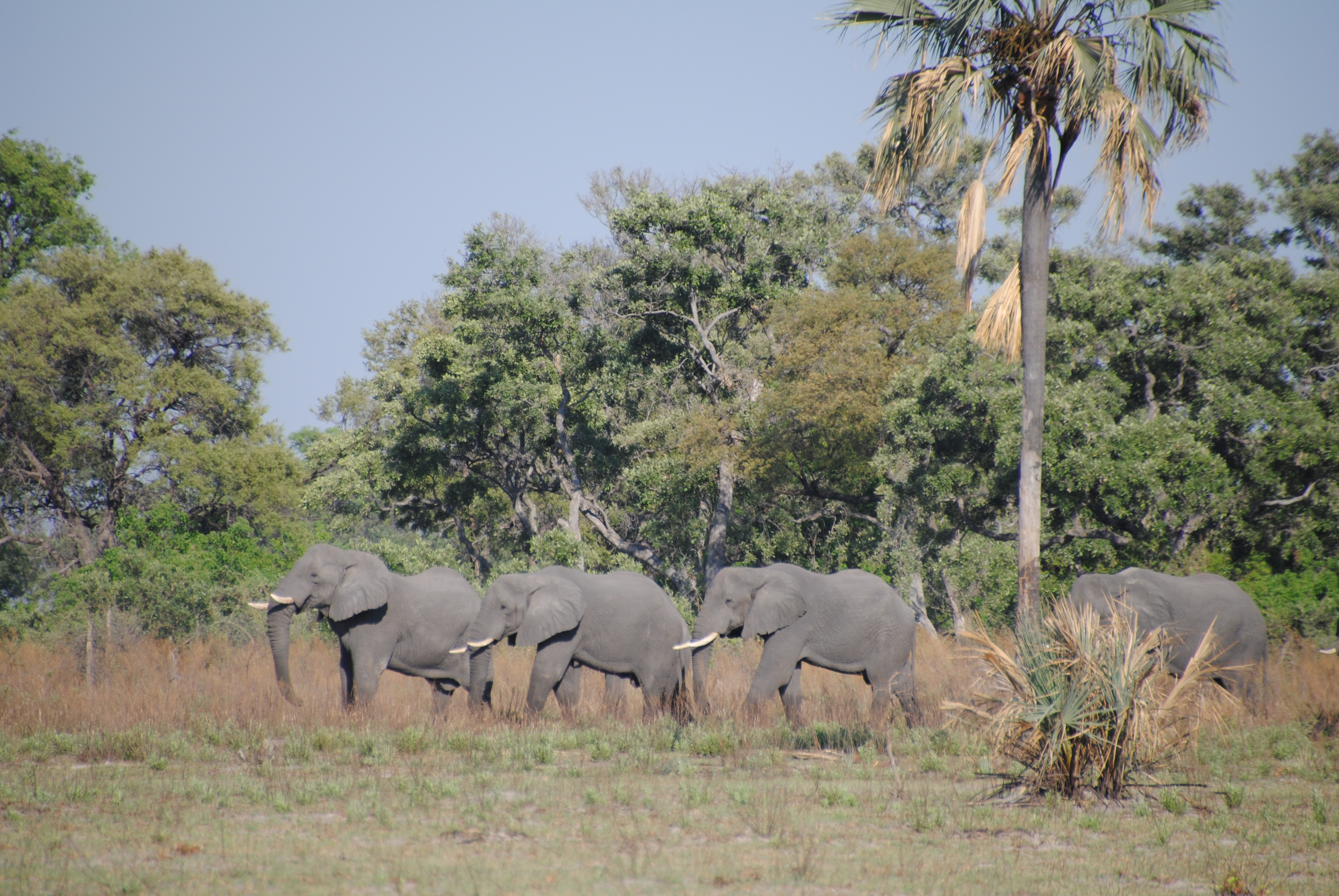 Elephants in the Okavango Delta - Botswana